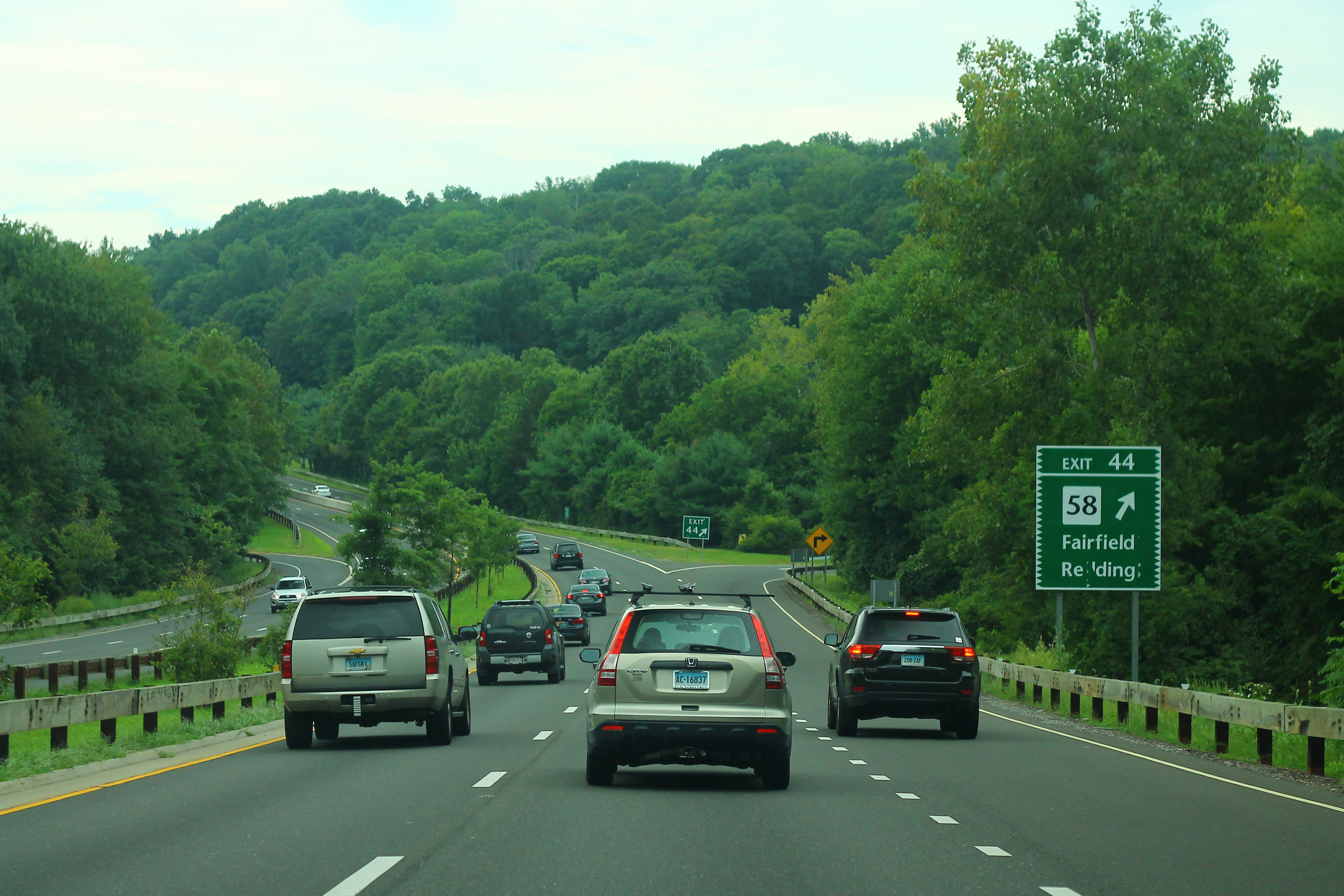 CT15sRoad-Exit44-CT58